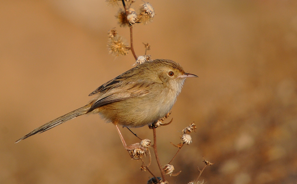 Graceful warbler Kurdî: Li Bismilê hatiye kişandin.Latînkî:Prinia gracilis